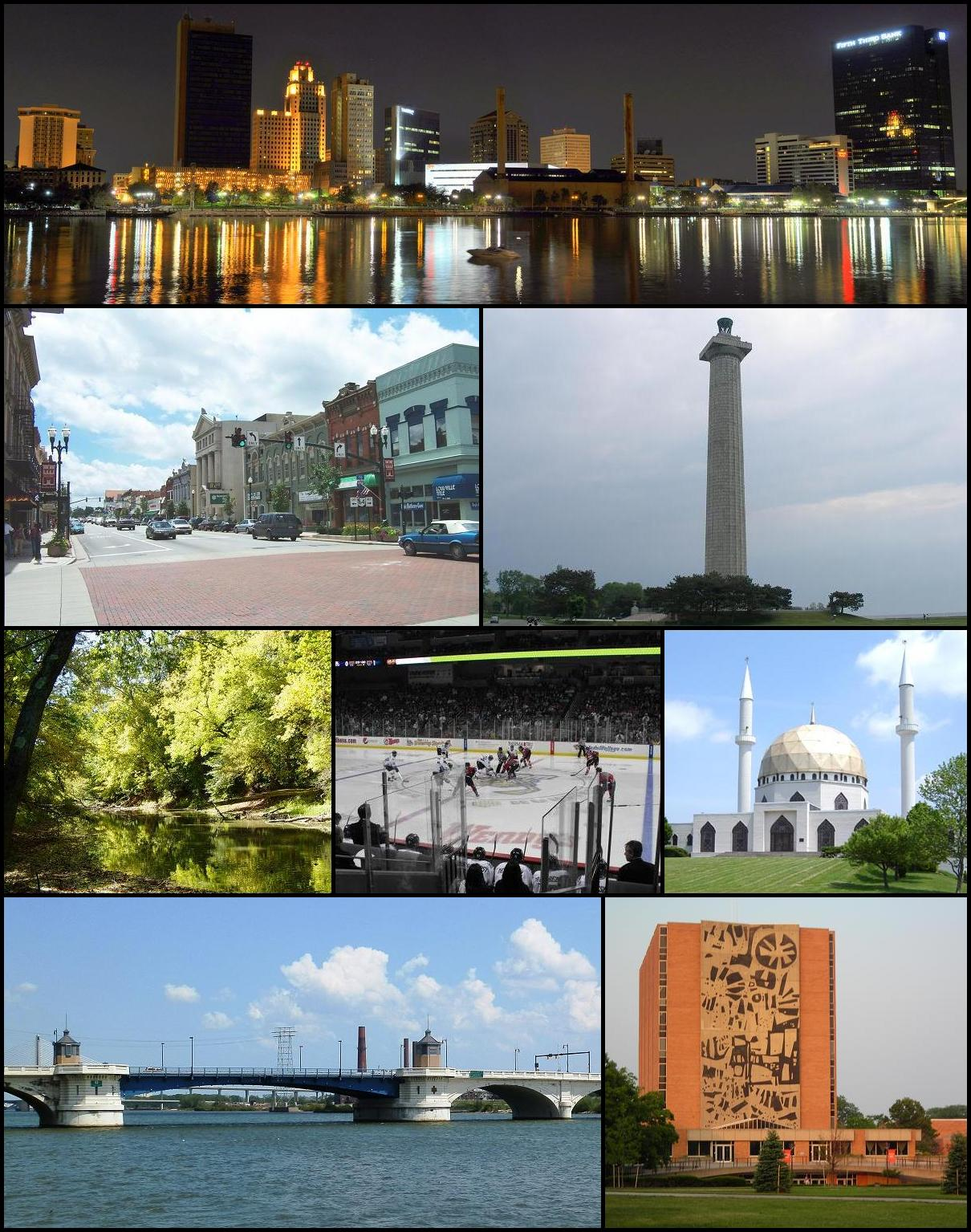 Montage of Toledo Metro Area images. From top to bottom left to right: Toledo Skyline Downtown Bowling Green Perry's Victory and International Peace Memorial, Put-in-Bay Goll Woods State Nature Preserve, Fulton County Center Ice at the Huntington Center, Toledo Islamic Center of Greater Toledo, Wood County Martin Luther King Bridge, Toledo Jerome Library, Bowling Green